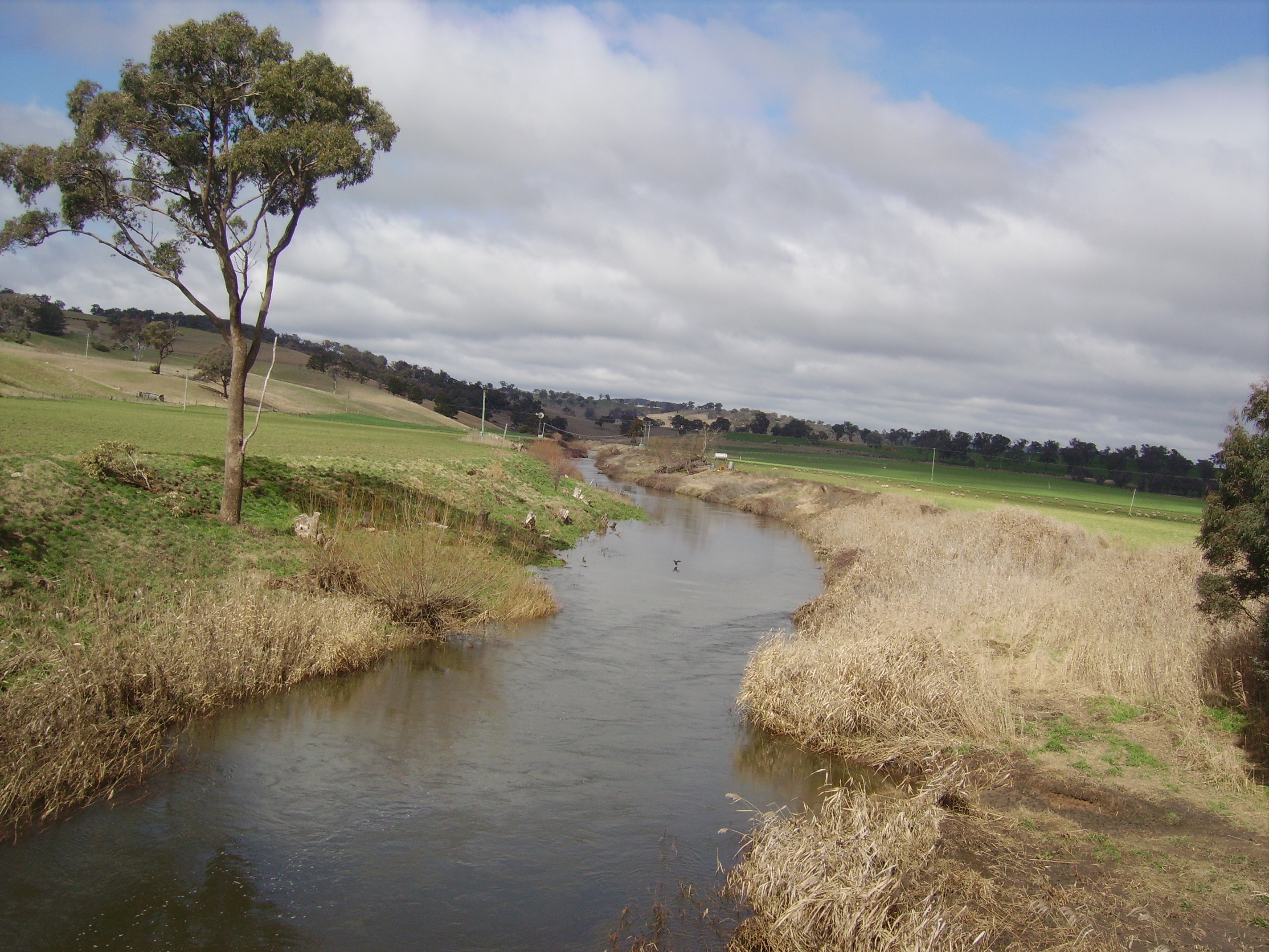 View of Campbells River south towards Ben Chifley Dam from the bridge on O'Connell Plains Road, The Lagoon, New South Wales